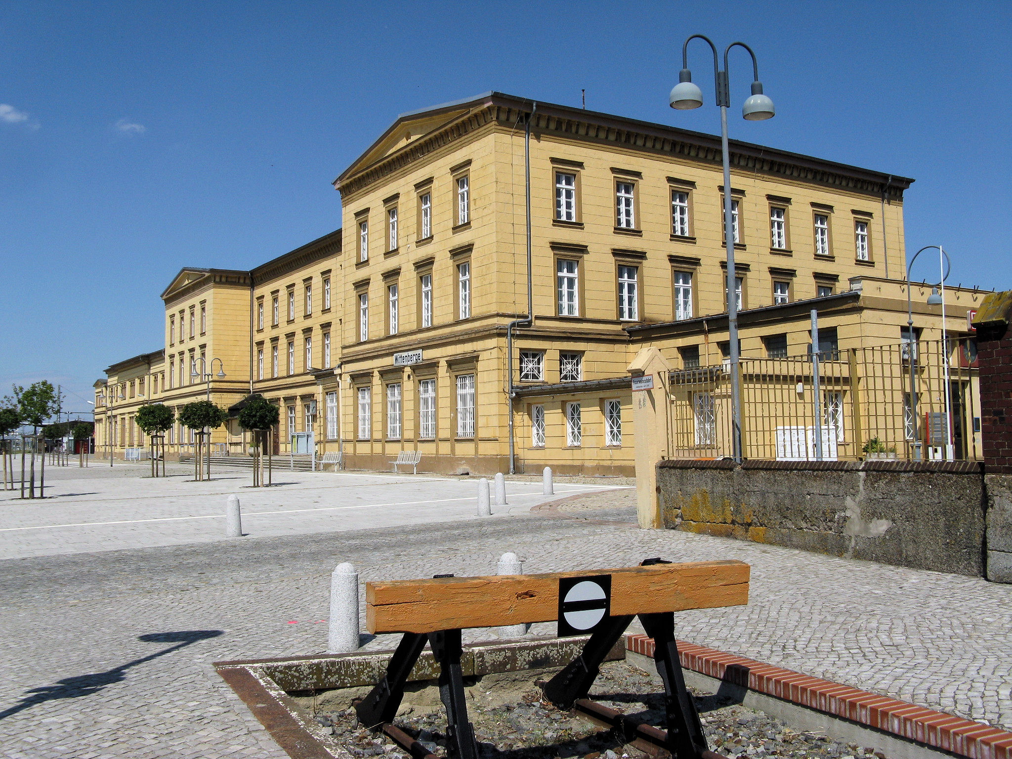 Wittenberge train station.